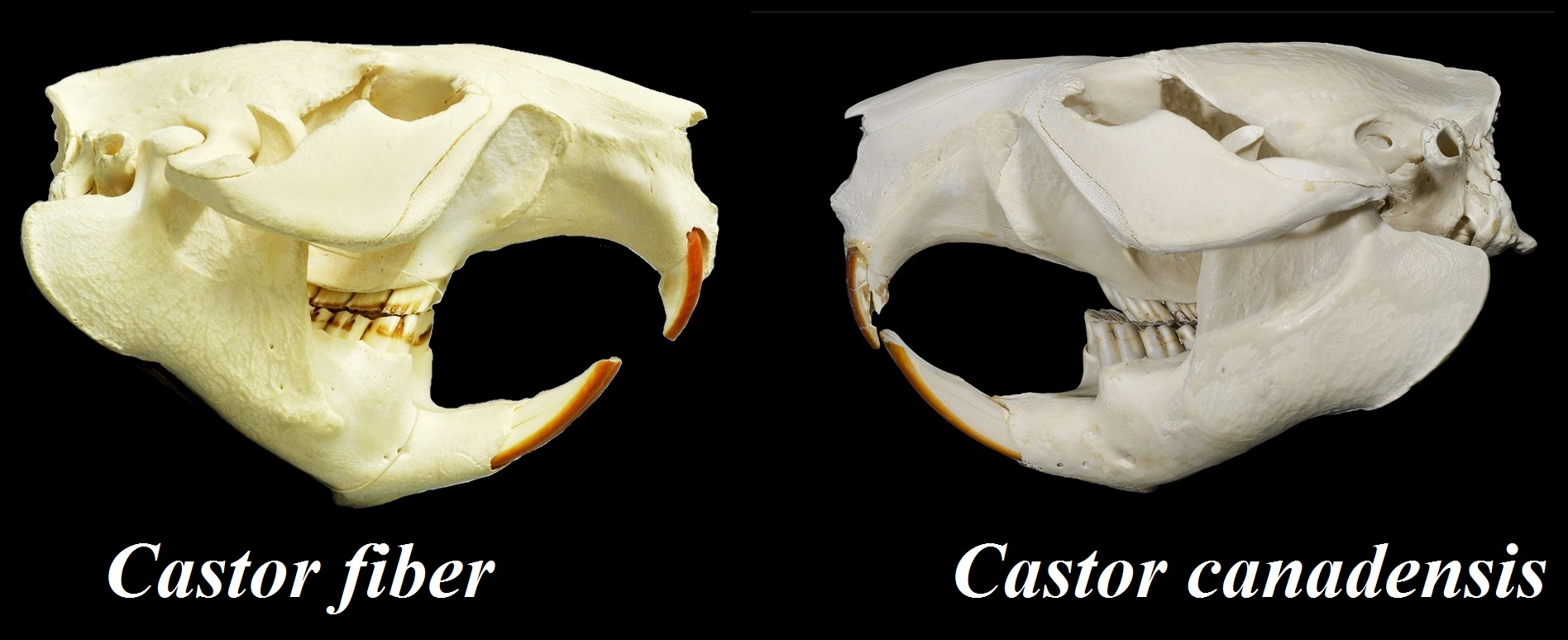 European and Canadian beaver skulls